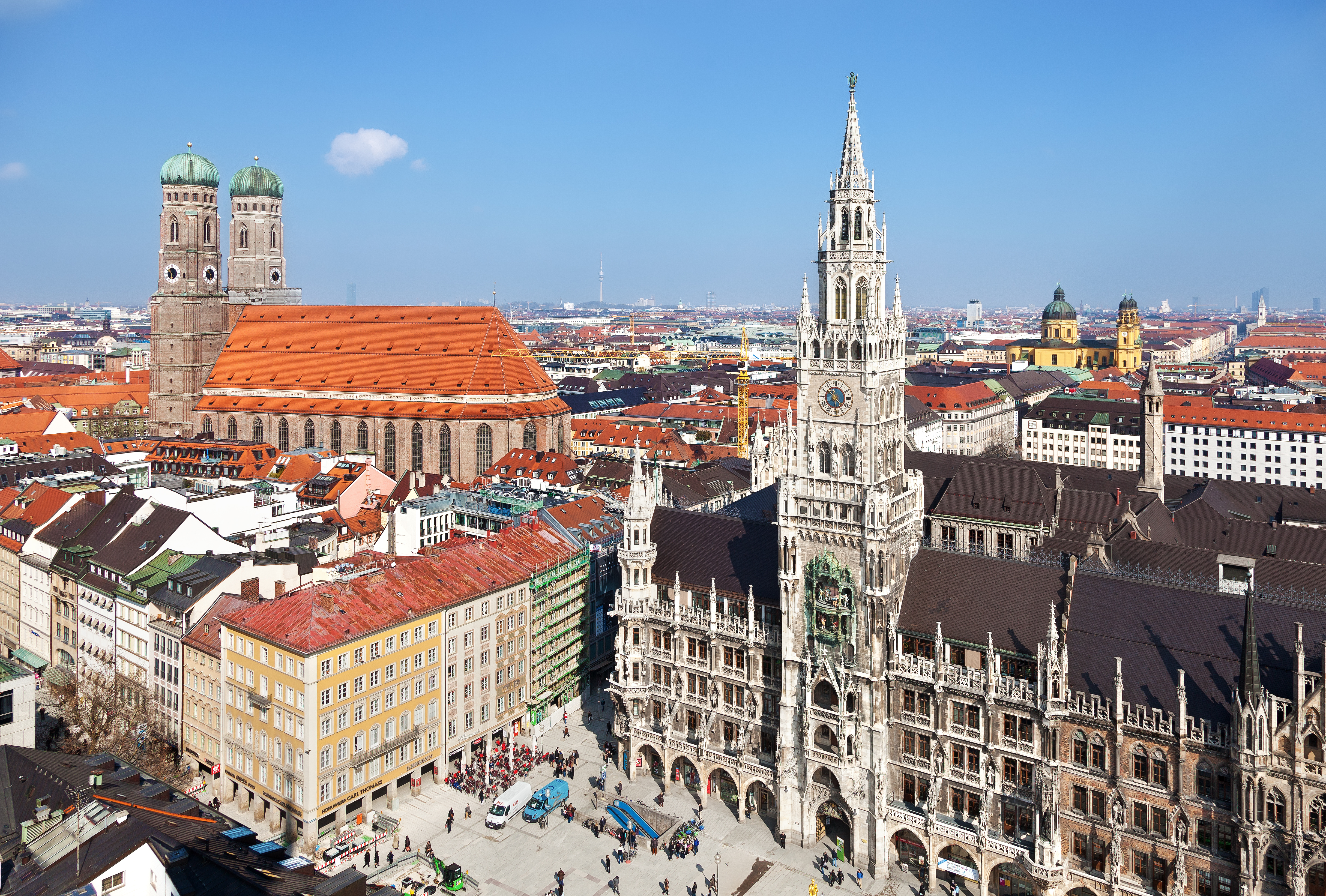 Old Town of Munich (Germany): on the left the Frauenkirche and on the right the New Town Hall